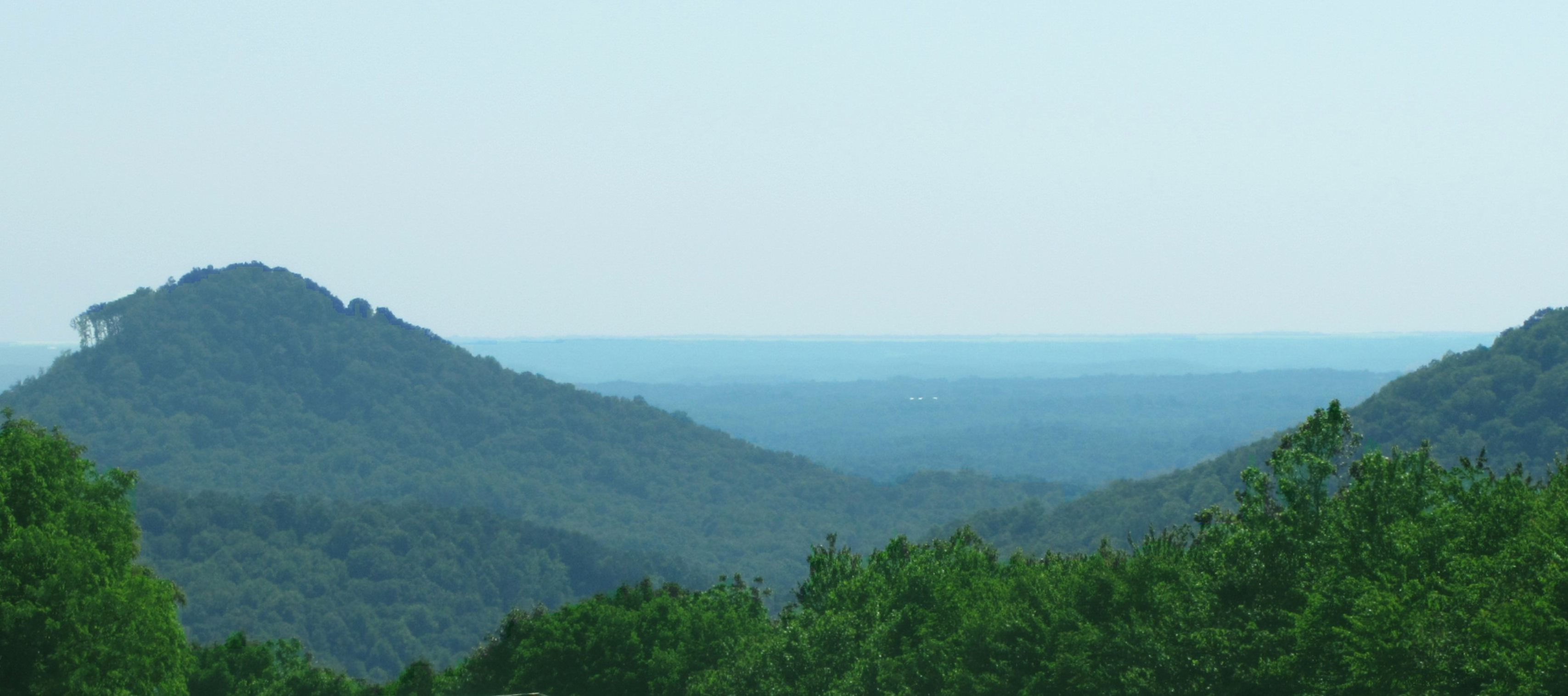 View of the mountains of Upstate South Carolina from Interstate 26, near the North Carolina/South Carolina border, in the southeastern United States